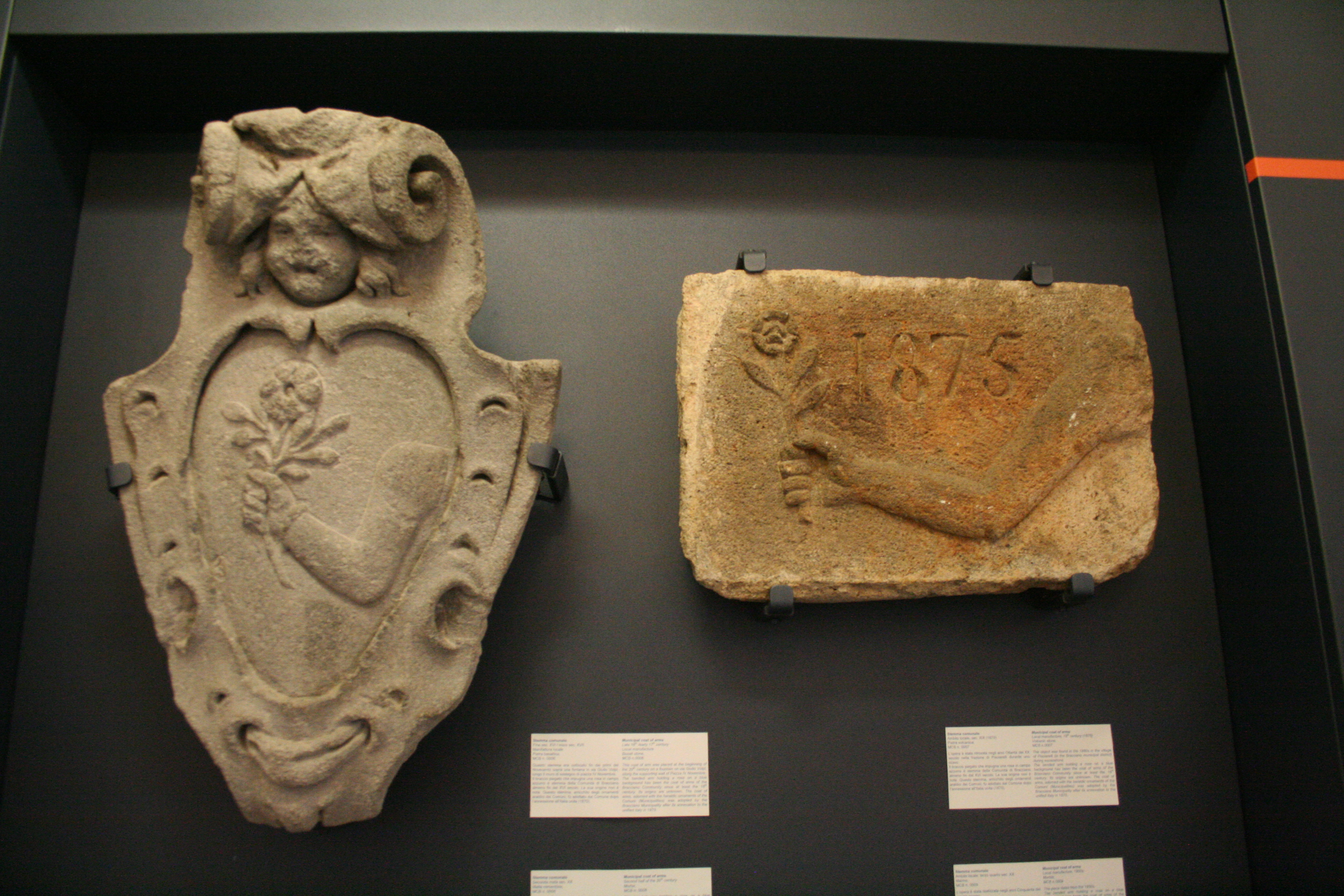 Civic Museum